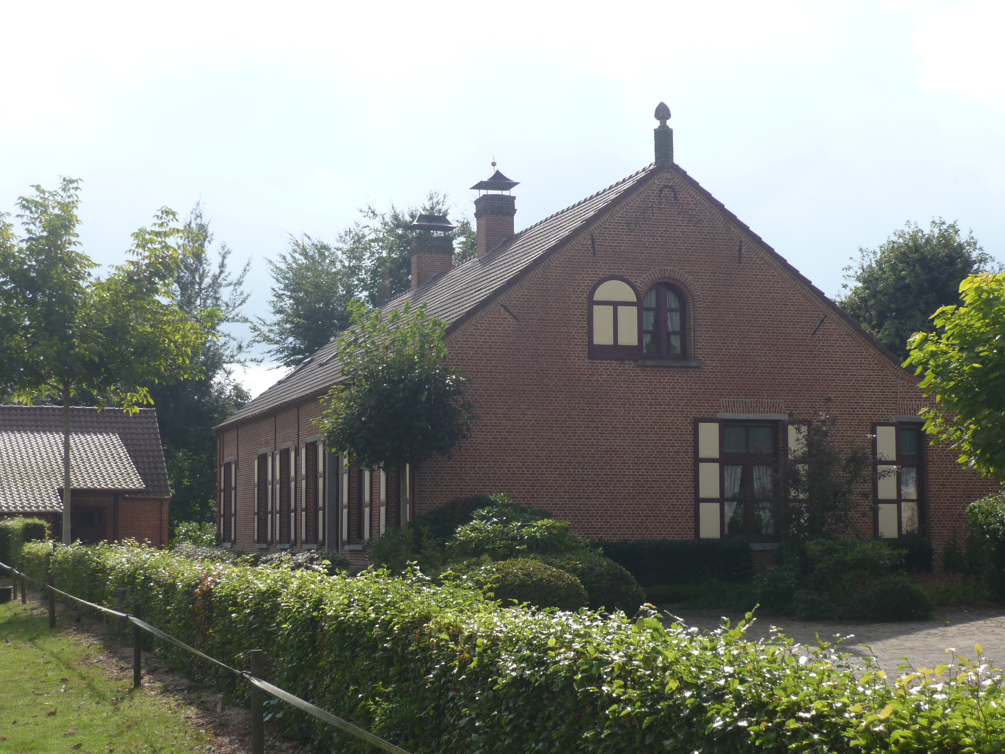 farmhouse Sint-job-in-'t-goor Kattenhoflaan 43 detached house next to a meadow